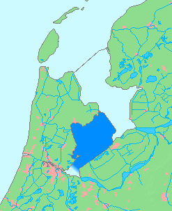 Maps of Markermeer, Netherlands